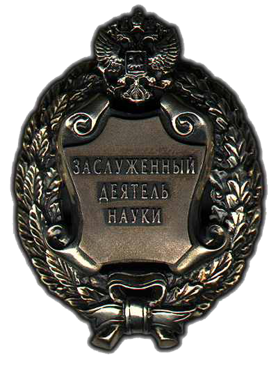 Breast Badge of Honoured Science Worker of the Russian Federation